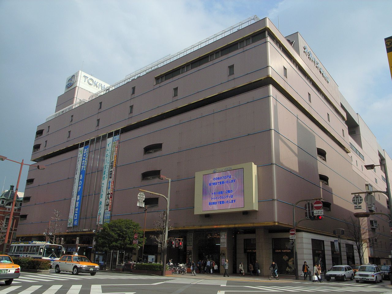 Tokiwa Honten (Department store), Oita City, Oita Pref., Japan